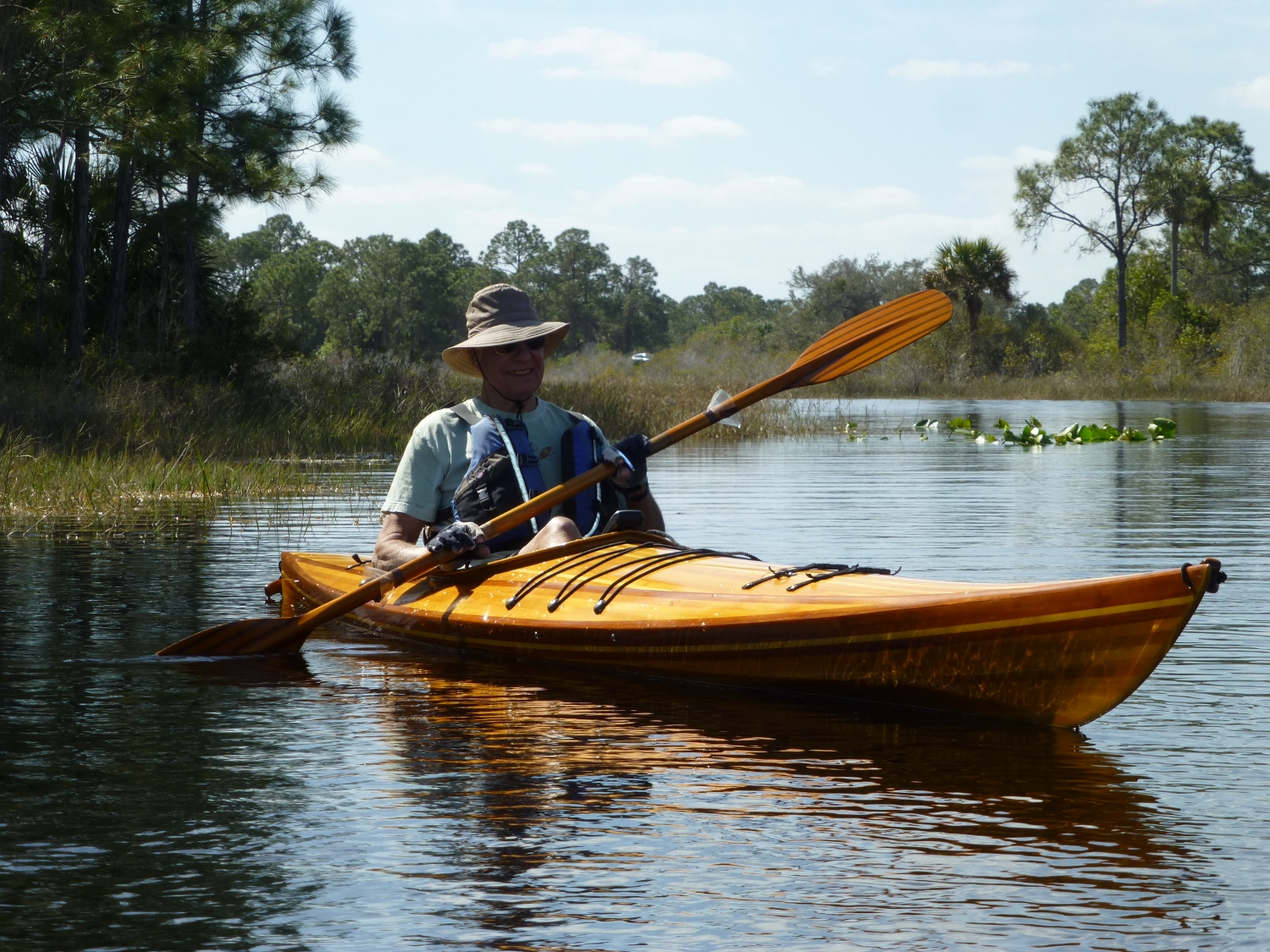 Kayak Paddle 3.7.16